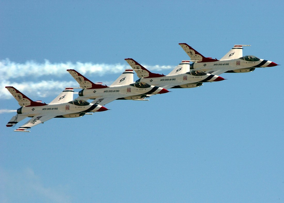 Over MACDILL AIR FORCE BASE, Florida -- The U.S. Air Force Thunderbirds perform an echelon pass here April 7, 2005. While performing the pass the F-16 Fighting Falcons fly between 18 and 24 inches apart at an average of 400 mph.